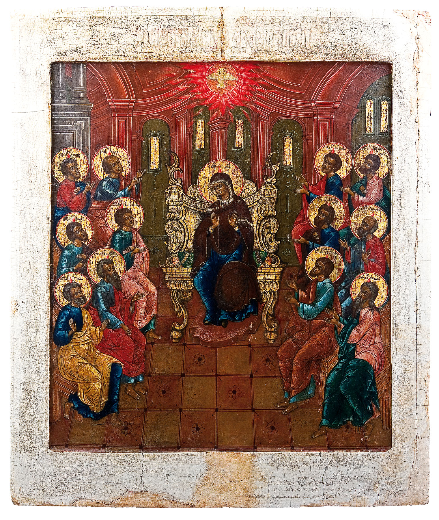 A large icon showing the Pentecost. Egg tempera on wood panel. The Mother of God seated on a grandiose carved throne, elevated on a circular marble pedestal. Surrounded by the Apostles. The Holy Spirit appearing above. The event taking place in an interior, with columns and windows. Painted mainly with tones of maroon and gold. Minimally restored. Russian, 18th century. 53.5 x 45 cm. Russland, 18. Jh.